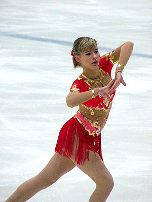 Olga Naidenova during her free skate at the 2004 Junior Grand Prix event in Germany